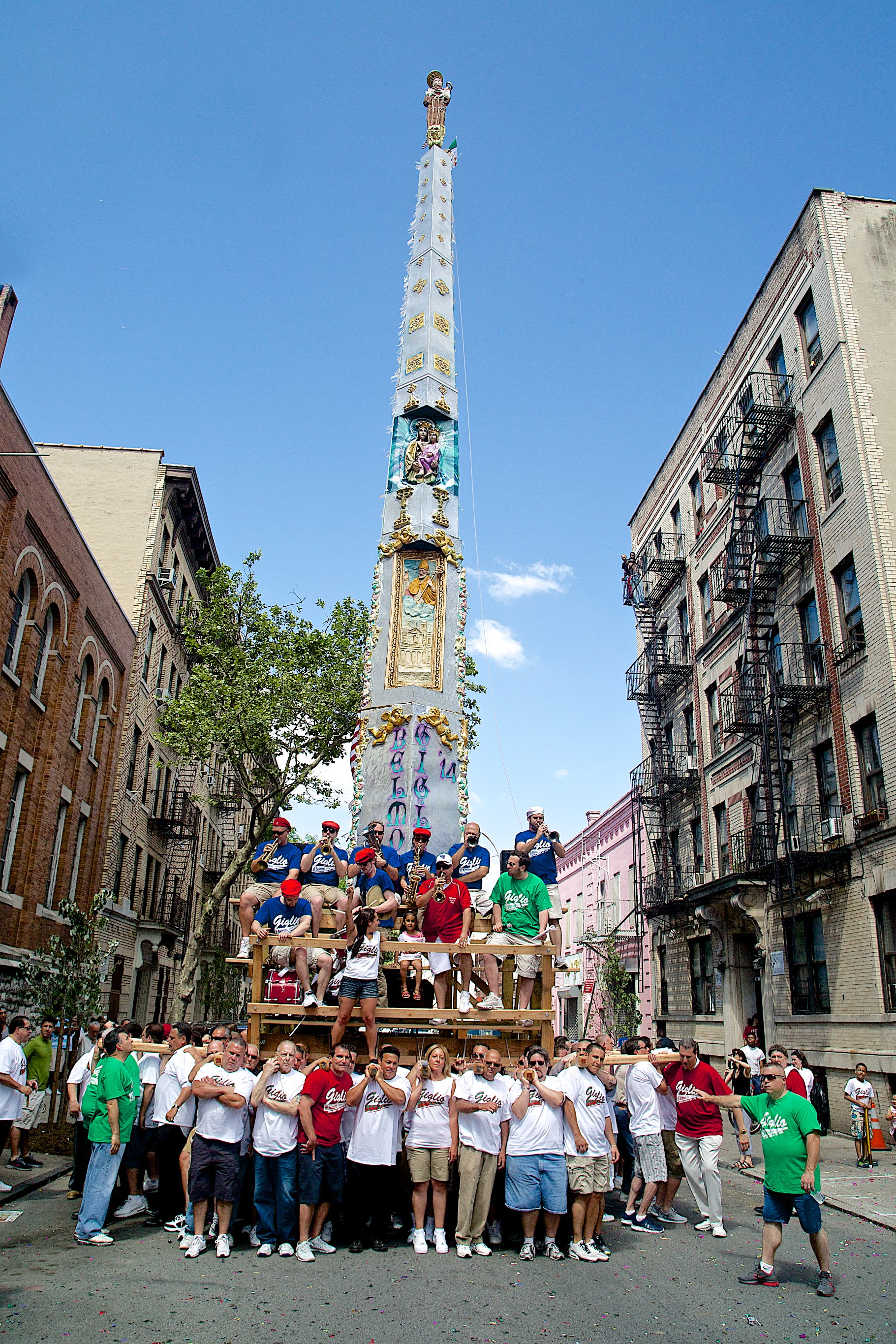 Bronx, NY